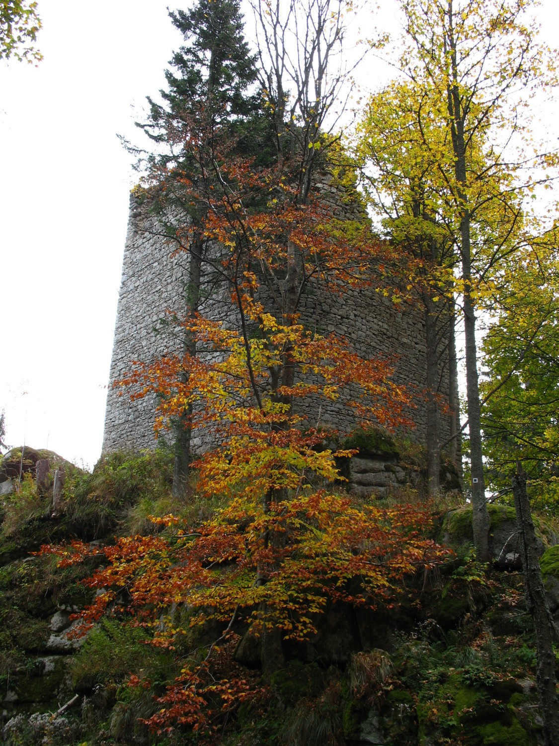 Ruin of Kunžvart Castle near Strážný, Prachatice District, Czech Republic.